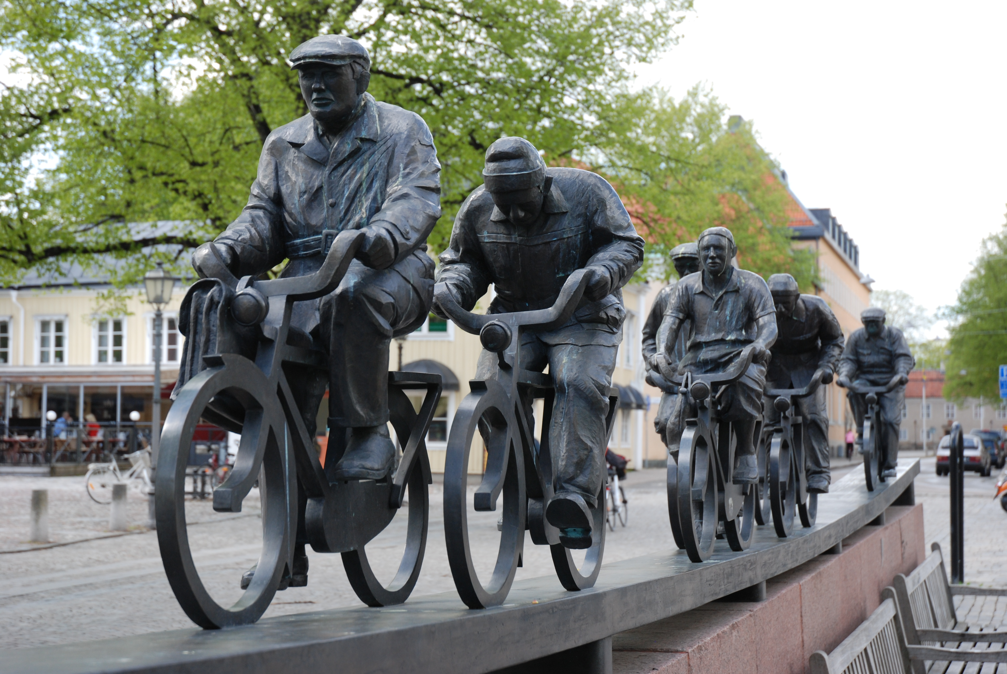 Bengt-Göran Broström's ASEA-strömmen, Västerås, Sweden.